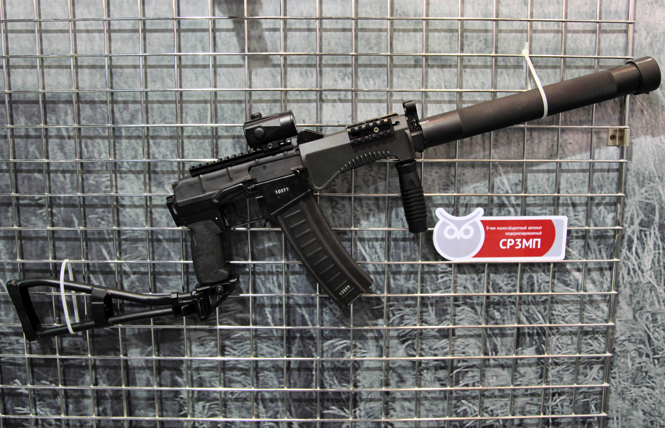 9mm SR3MP rifle at Engineering technologies international forum - 2012